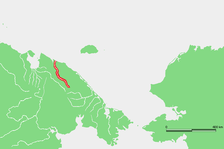 location map